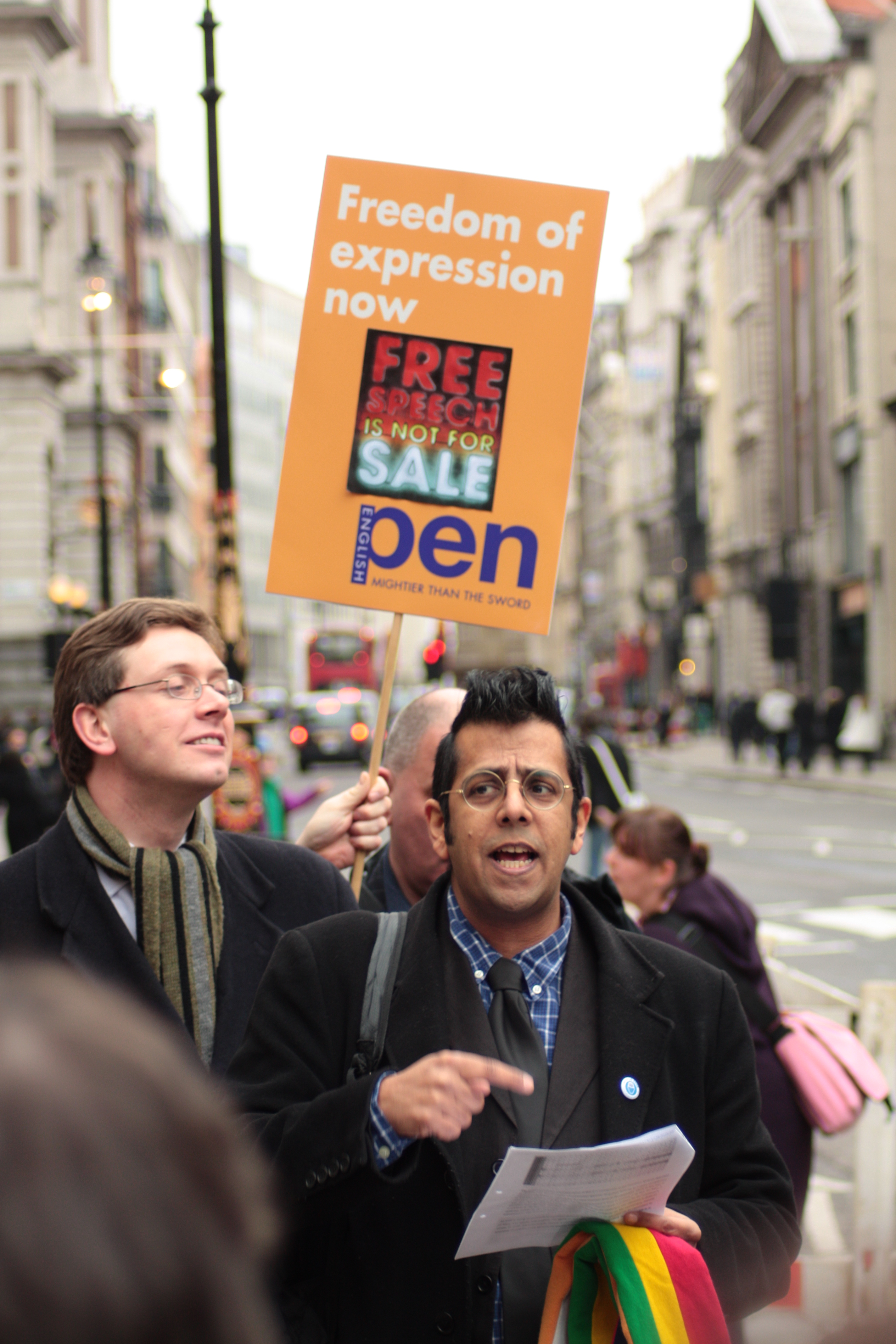 Science writer Simon Singh with his lawyer Robert Dougans, at the Royal Courts of Justice, 23rd February 2010. (Photo: Robert Sharp / English PEN)